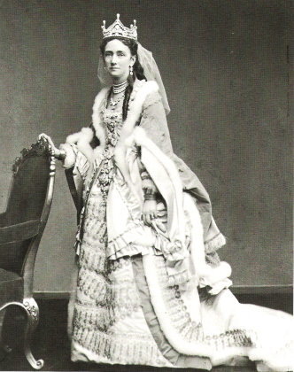 Portrait of Queen Louise of Denmark (1817-1898), née Louise of Hesse-Cassel